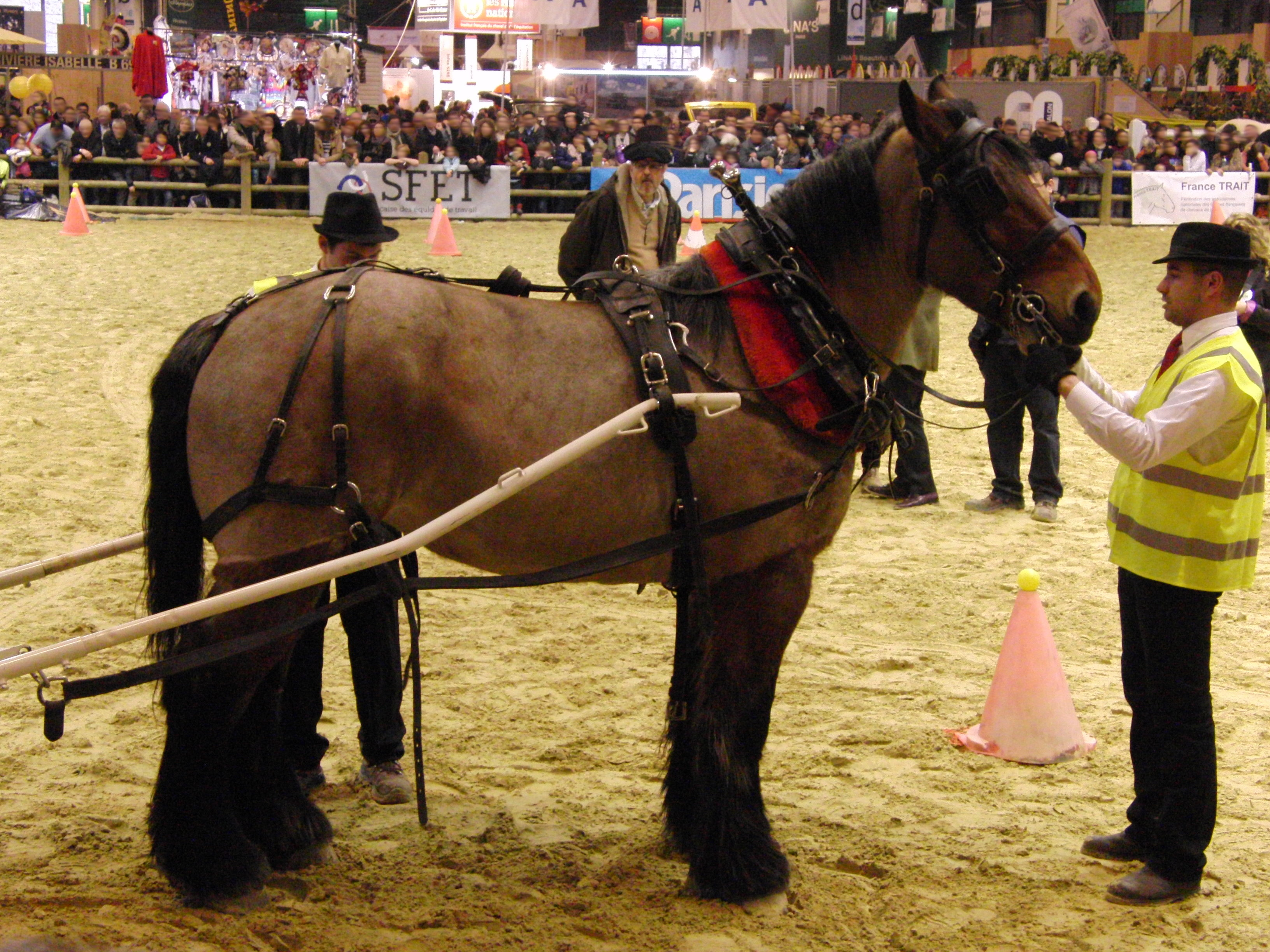 A harnessed Auxois horse before a competition at the Salon international de l'agriculture 2013 in Paris, France